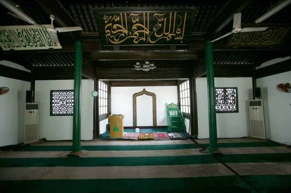 The Prayer Hall of Yuehu Mosque. By Hamada Hagras